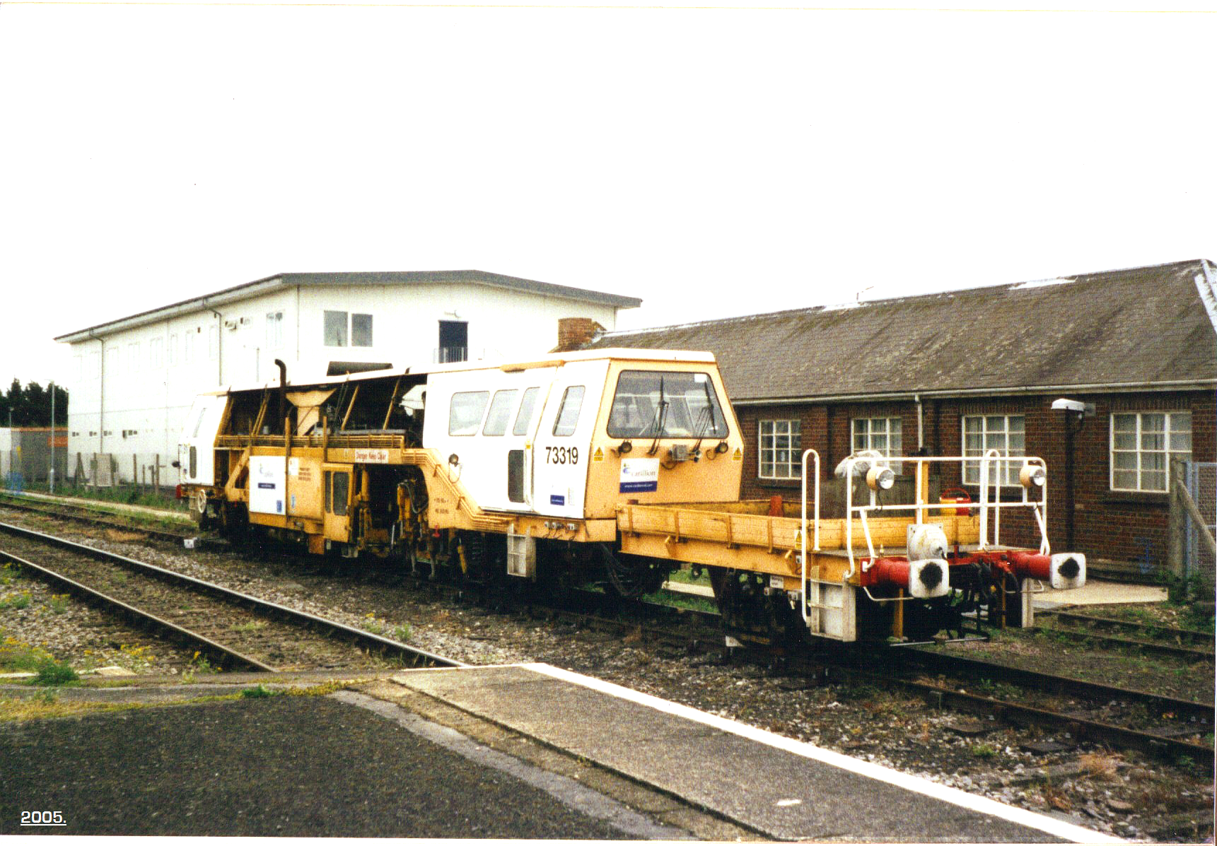 I took this picture of Carillion ballast/track tamper train at Banbury station my self and release it for use in the public domain.